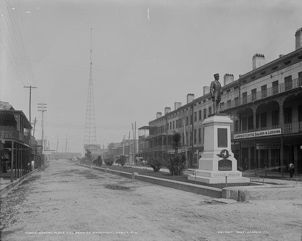 Original description: Duncan Place and Semmes Monument, Mobile, Ala. Additional description: This is Government Street, between Water and Royal Streets, in 1900.